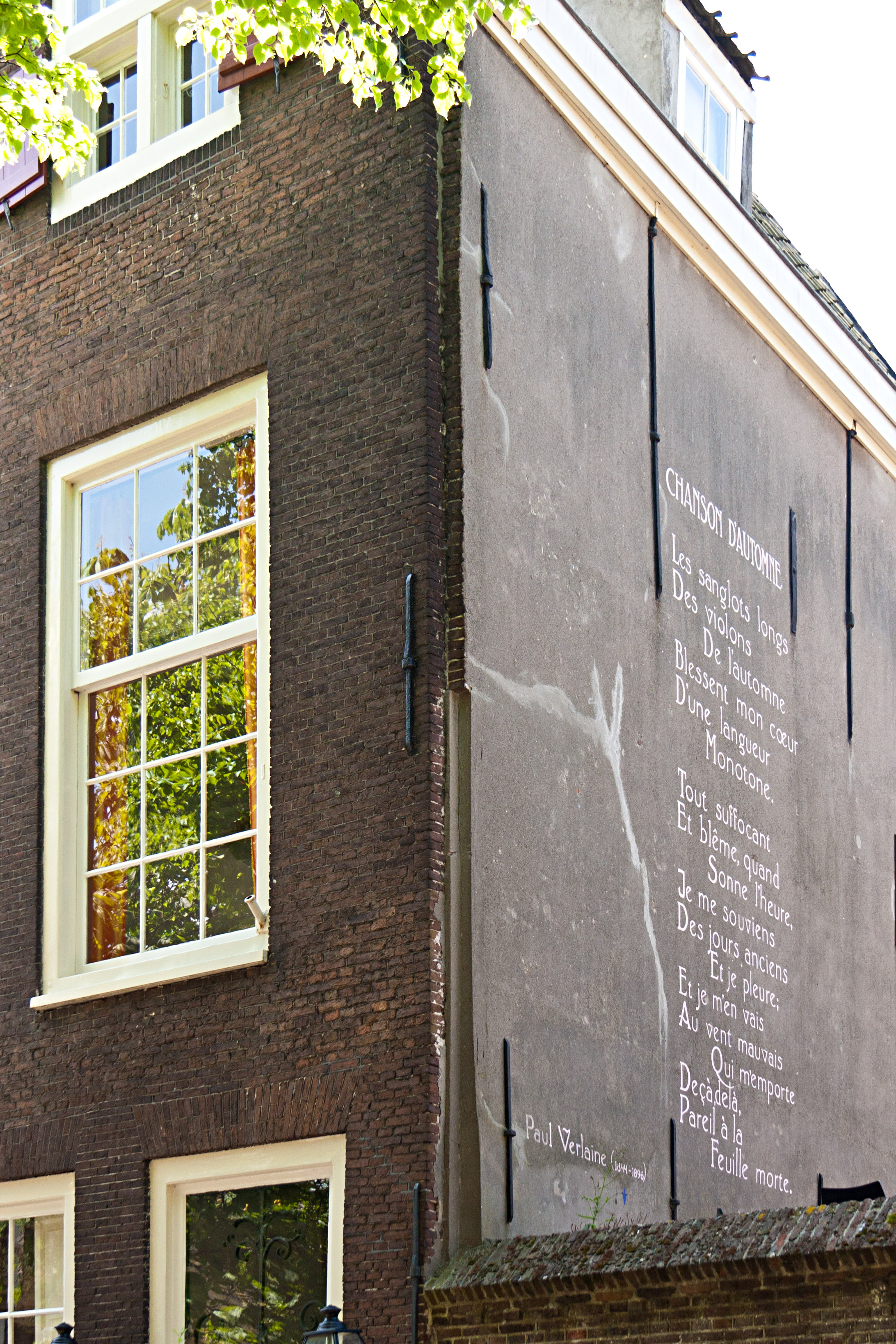 A wall poem in Leiden, the Netherlands, Chanson D'Automne, in French, by Paul Verlaine